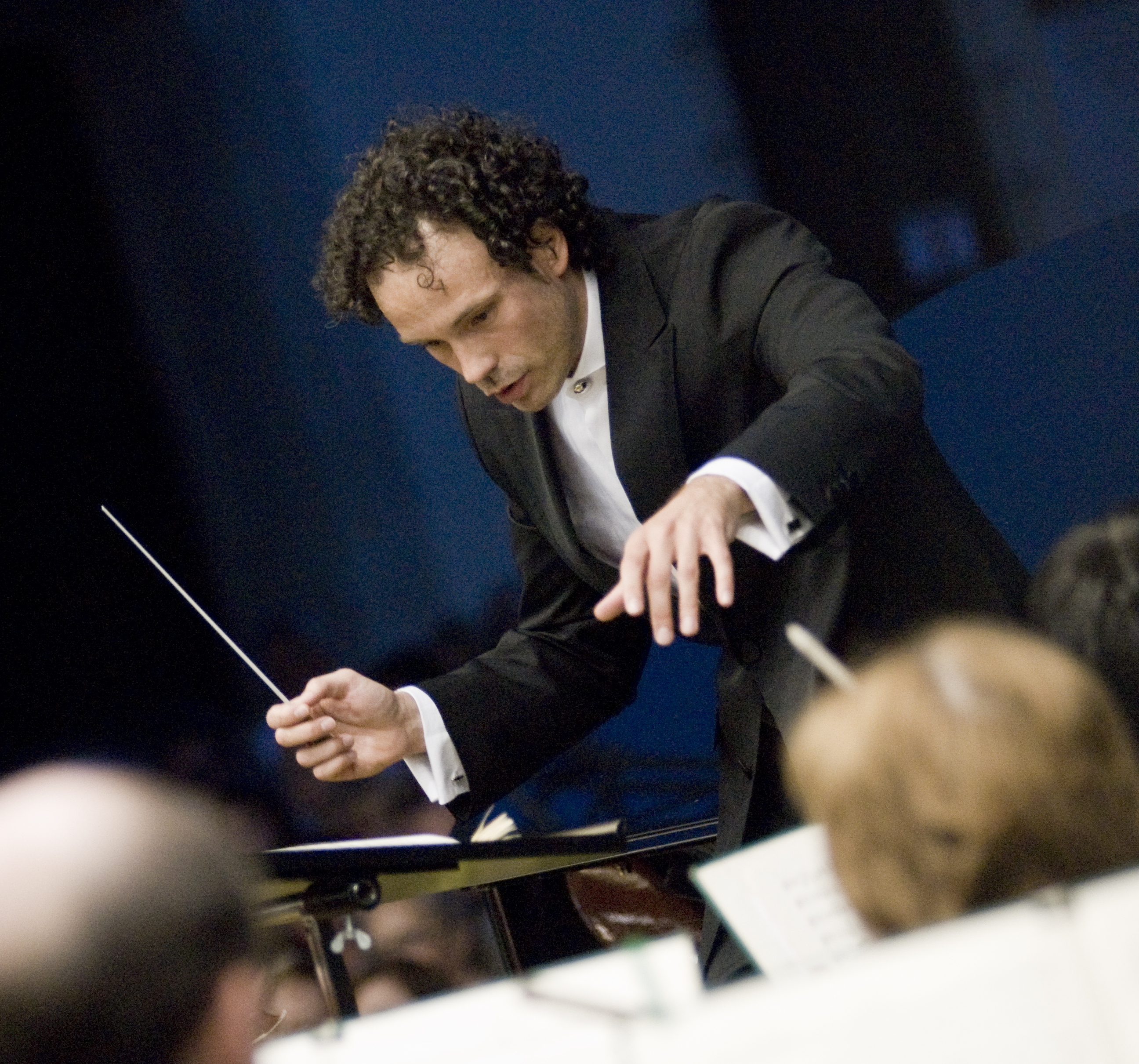 Principal Conductor of Brno Philharmonic Orchestra Aleksandar Marković during Špilberk Festival, Brno 2010.